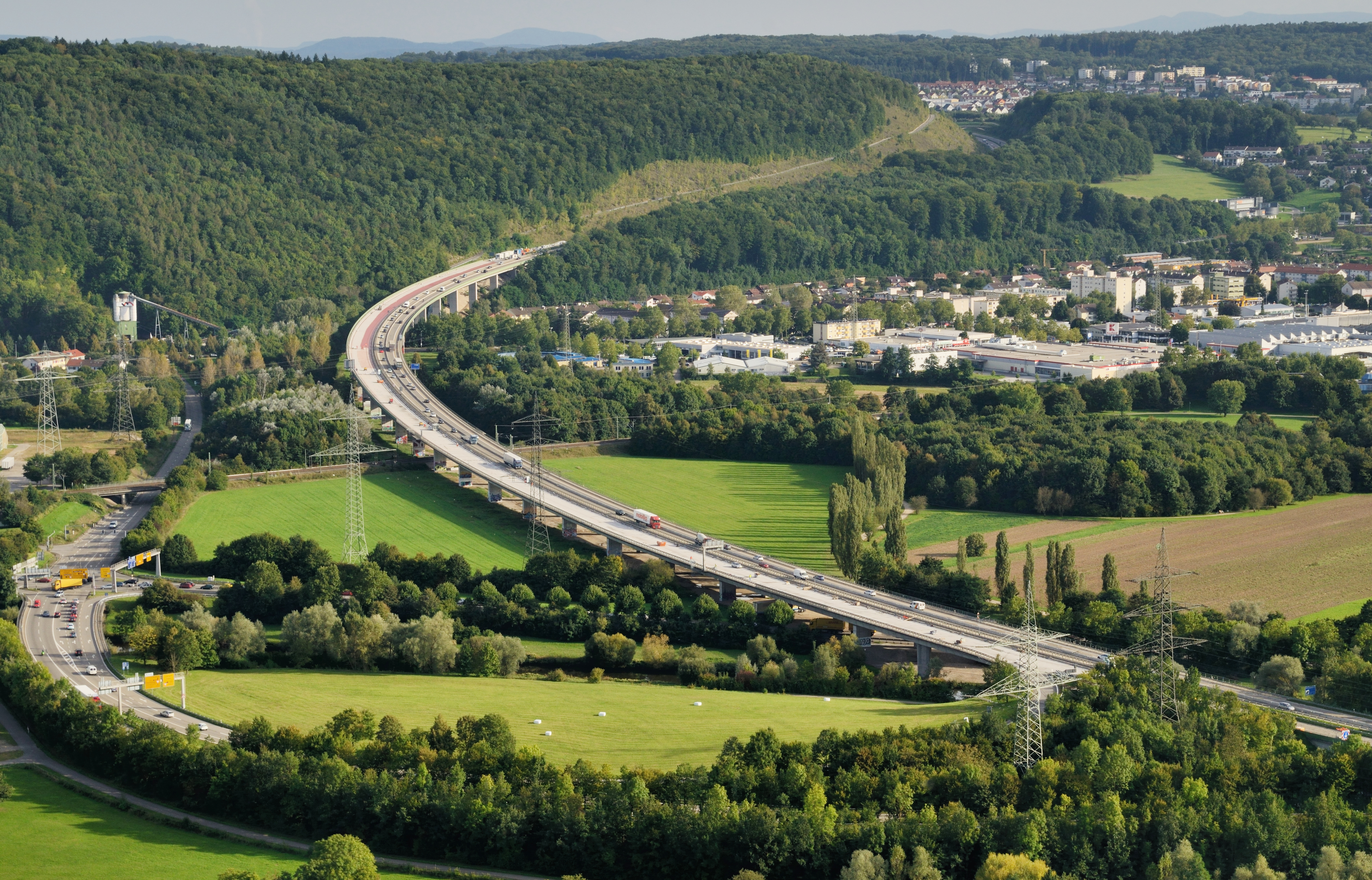 Lörrach: Vally Wiese bridge (Wiesentalbrücke, 1211 meters long)